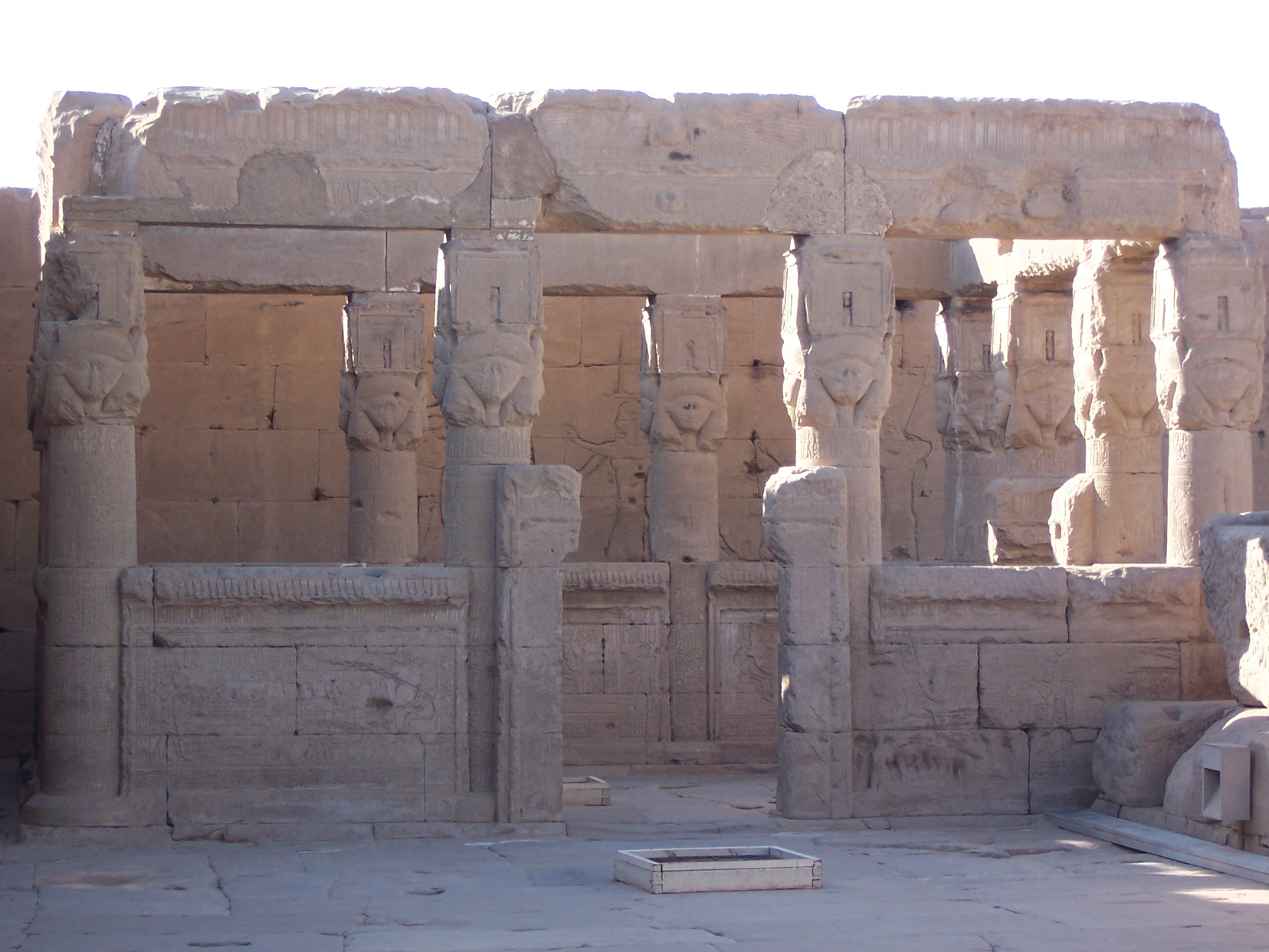 Dendera Hathor Temple Complex location: near Qina, Egypt